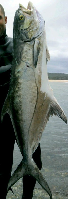 Lichia amia